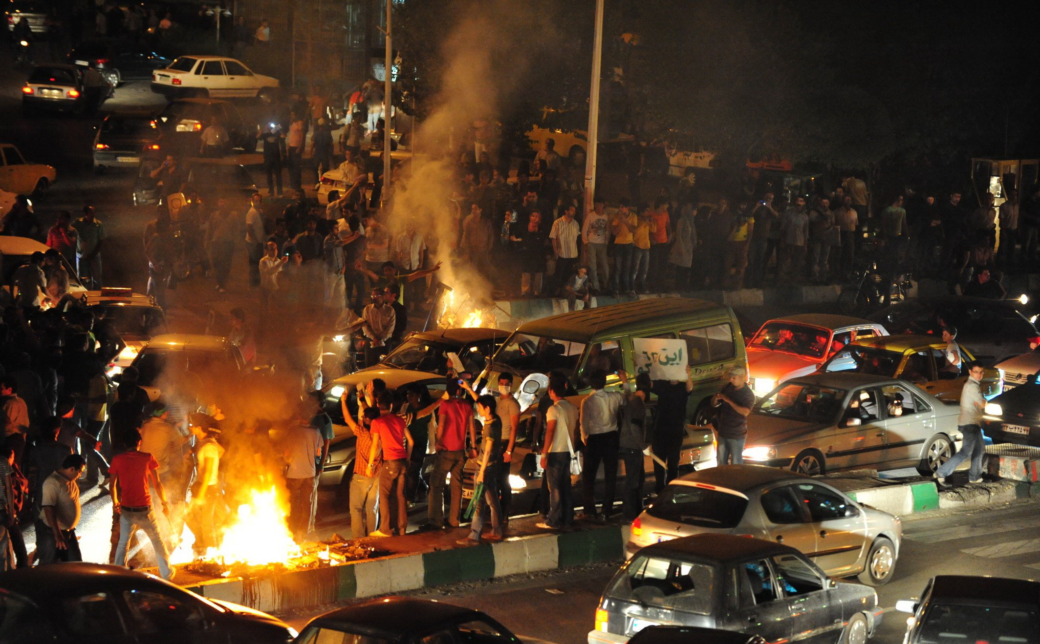 Protesting the election results, Tehran. More photos here: Viva Iran!